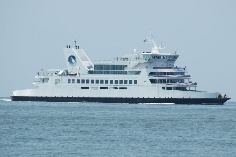 The M.V. Twin Capes, one of the five vessels of the Cape May-Lewes Ferry fleet, approaches the Cape May, New Jersey, terminal on July 4, 2005. Photo by Adam Gilson.